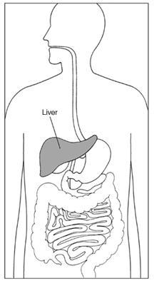 NDDIC provides information about digestive diseases to people with digestive disorders and to their families, health care professionals, and the public. This publication is not copyrighted. The Clearinghouse encourages users of this fact sheet to duplicate and distribute as many copies as desired. What I need to know about Hepatitis C